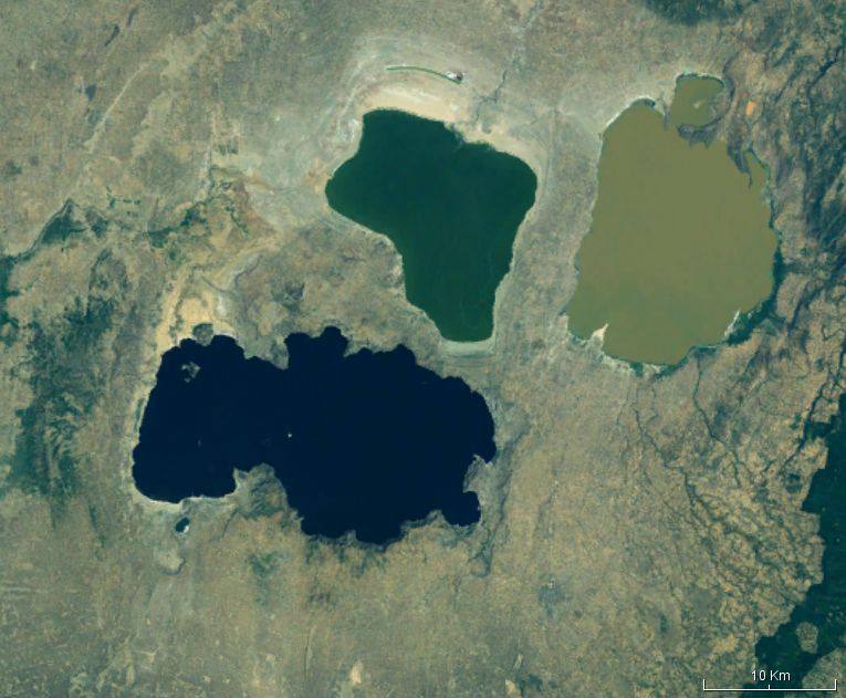 Lake Abijatta, Langano and Shala